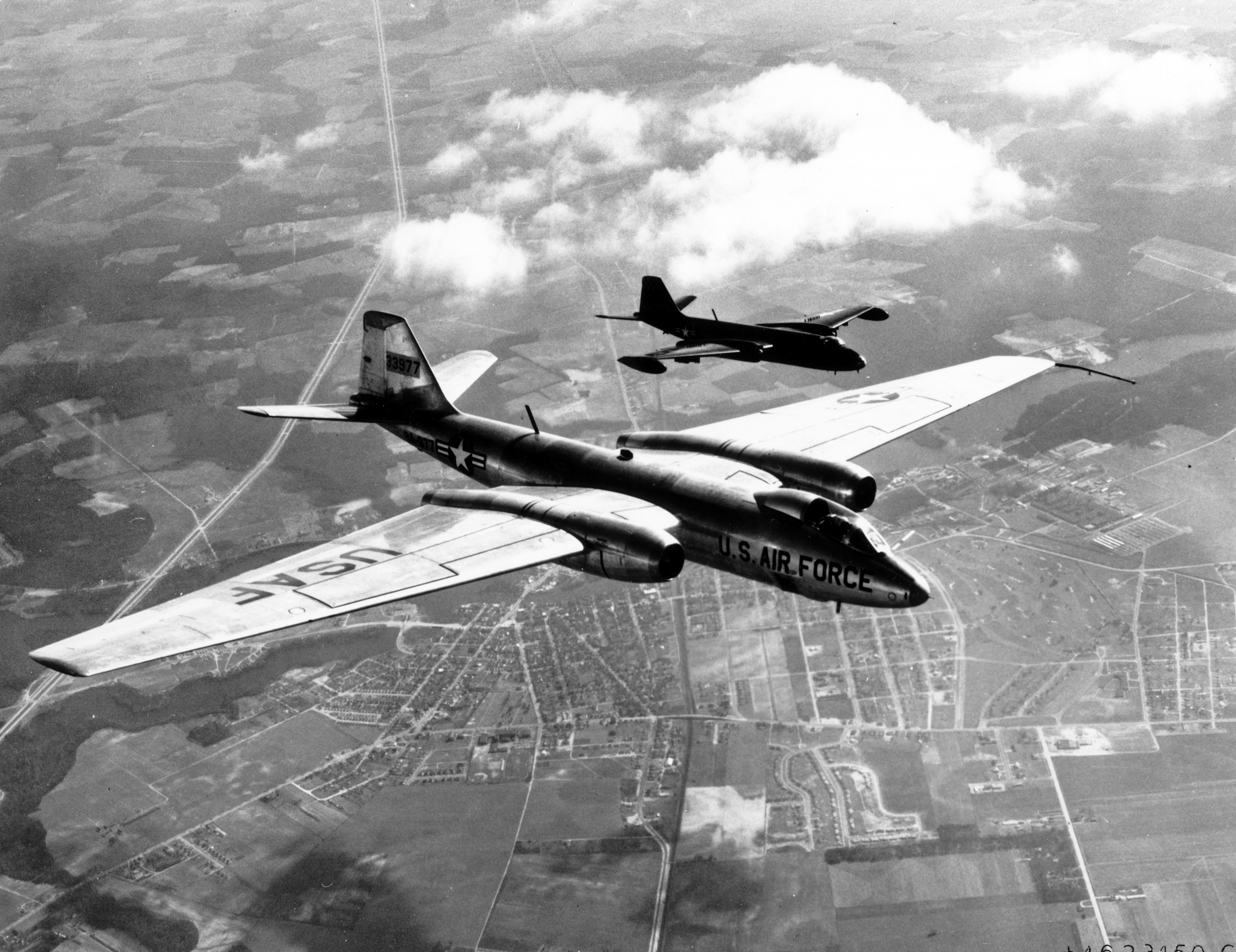 A U.S. Air Force Tactical Air Command's B-57A bomber (black plane in this formation) glides into position on the wing of the Strategic Air Command's sister ship, the wider-winged RB-57D (s/n 53-3977). The RB-57D was built strictly as a high altitude reconnaissance platform.